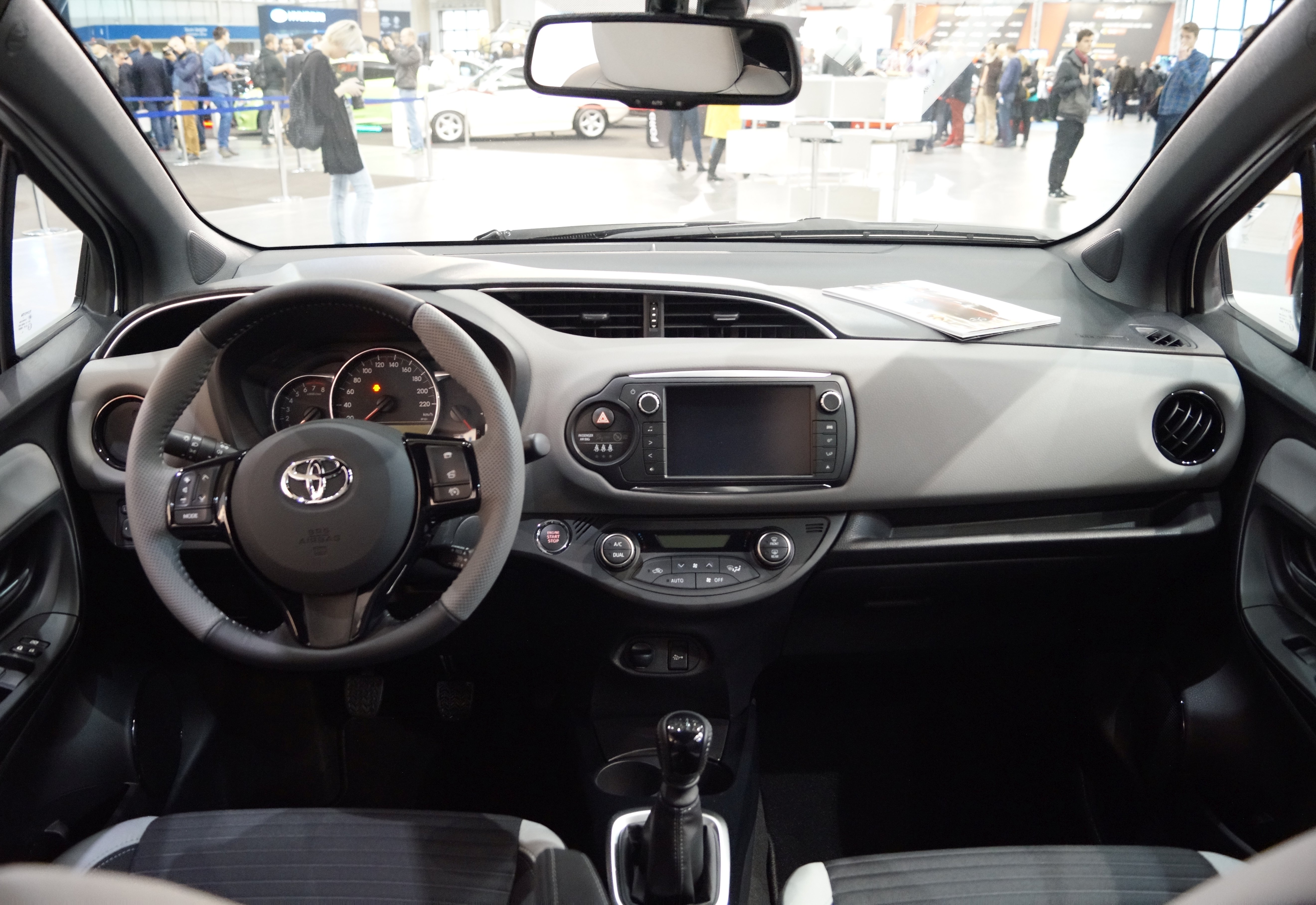 The making of this document was supported by Wikimedia Polska Association, within Wikigrant no. WG 2016-10. Wnętrze Toyoty Yaris na Motor Show Poznań 2016